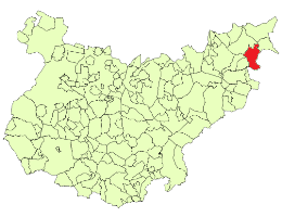 Fuenlabrada de los Montes, spanish municipality in the province of Badajoz, Extremadura.